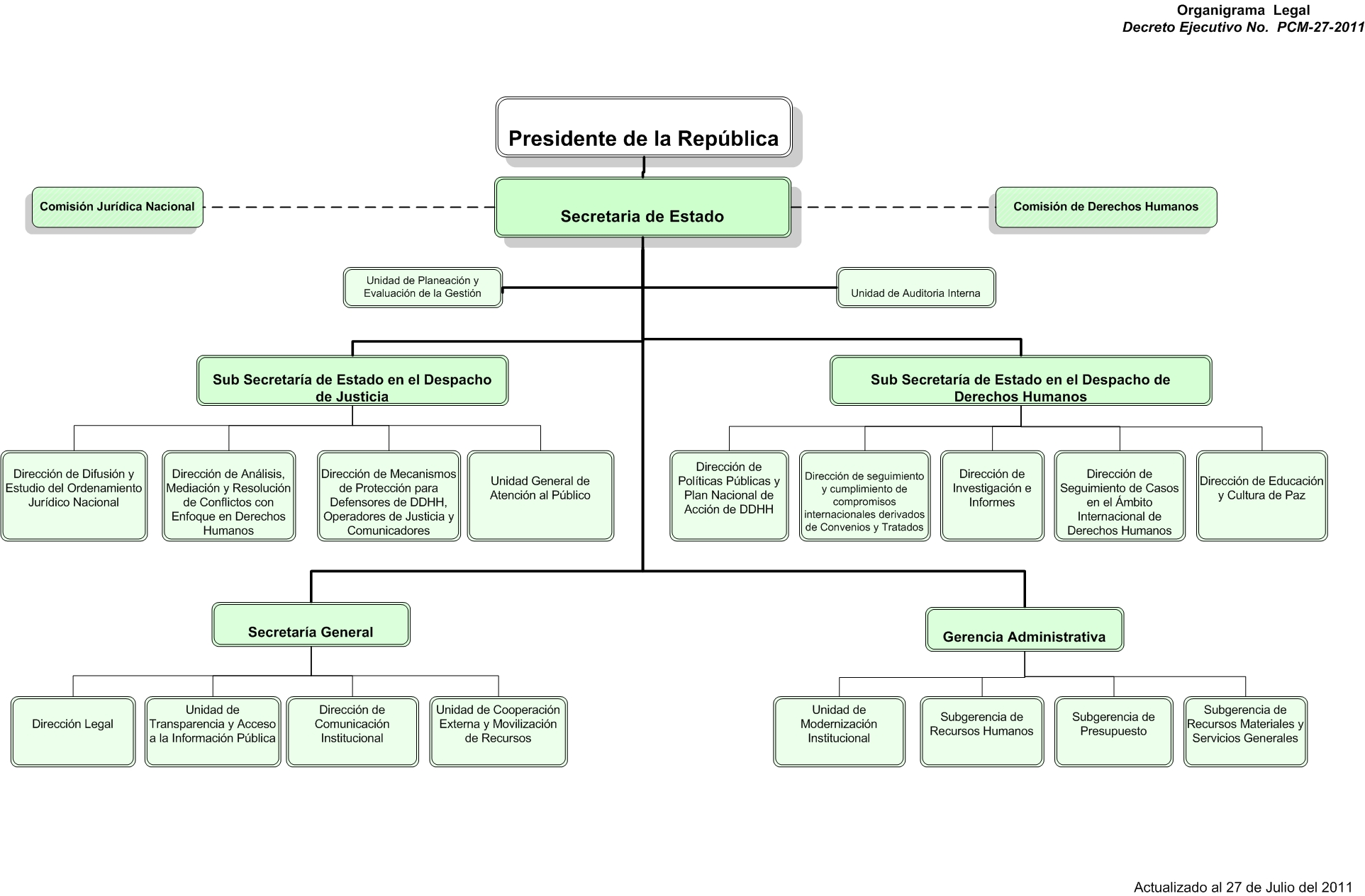 Escrutura Organica de la SJDH